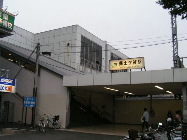 West Exit of Hodogaya Station, Hodogaya-ku, Yokohama, Kanagawa, Japan.